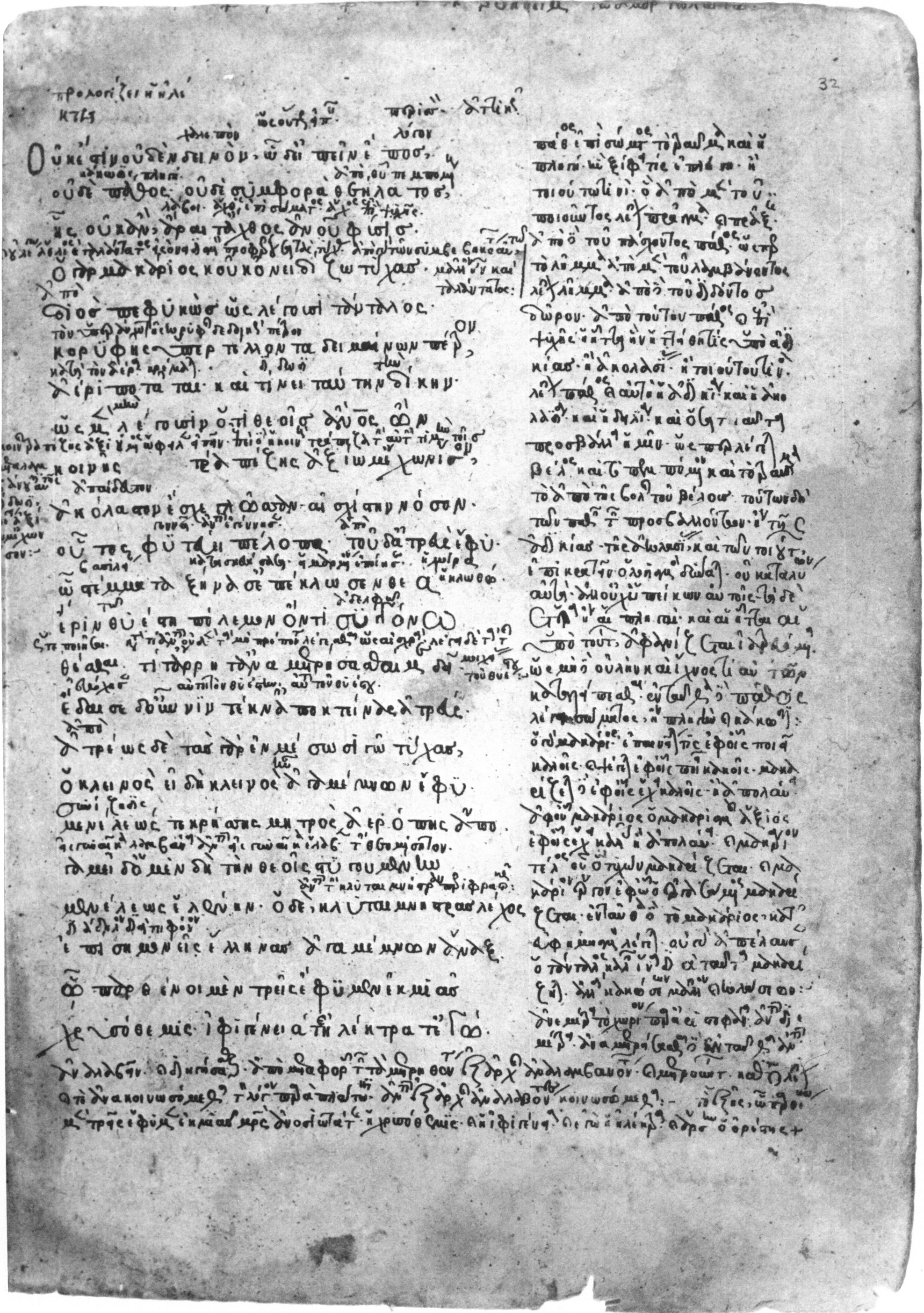 Euripides, Orestes, verses 1-23, with scholia. Frühes 14. Jahrhundert. Oxford, Bodleian Library, MS. Barocci 120, fol. 32r.